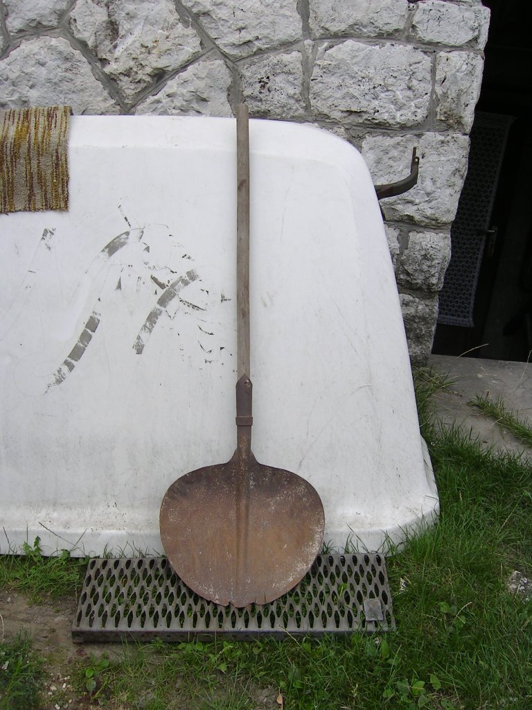 Heart-shaped mining shovel